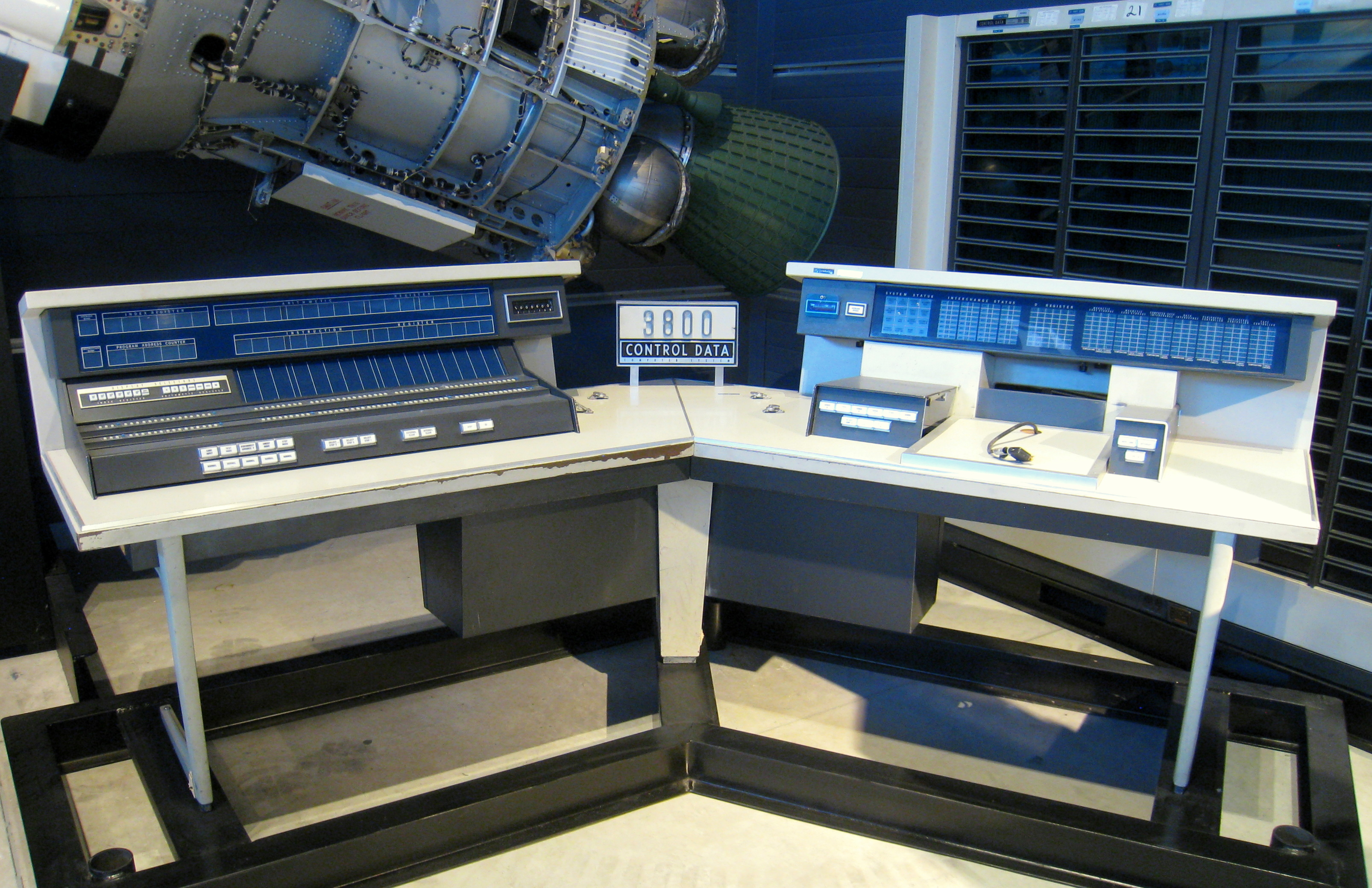 CDC 3800 - Udvar-Hazy Center, Dulles International Airport, Chantilly, Virginia, USA.